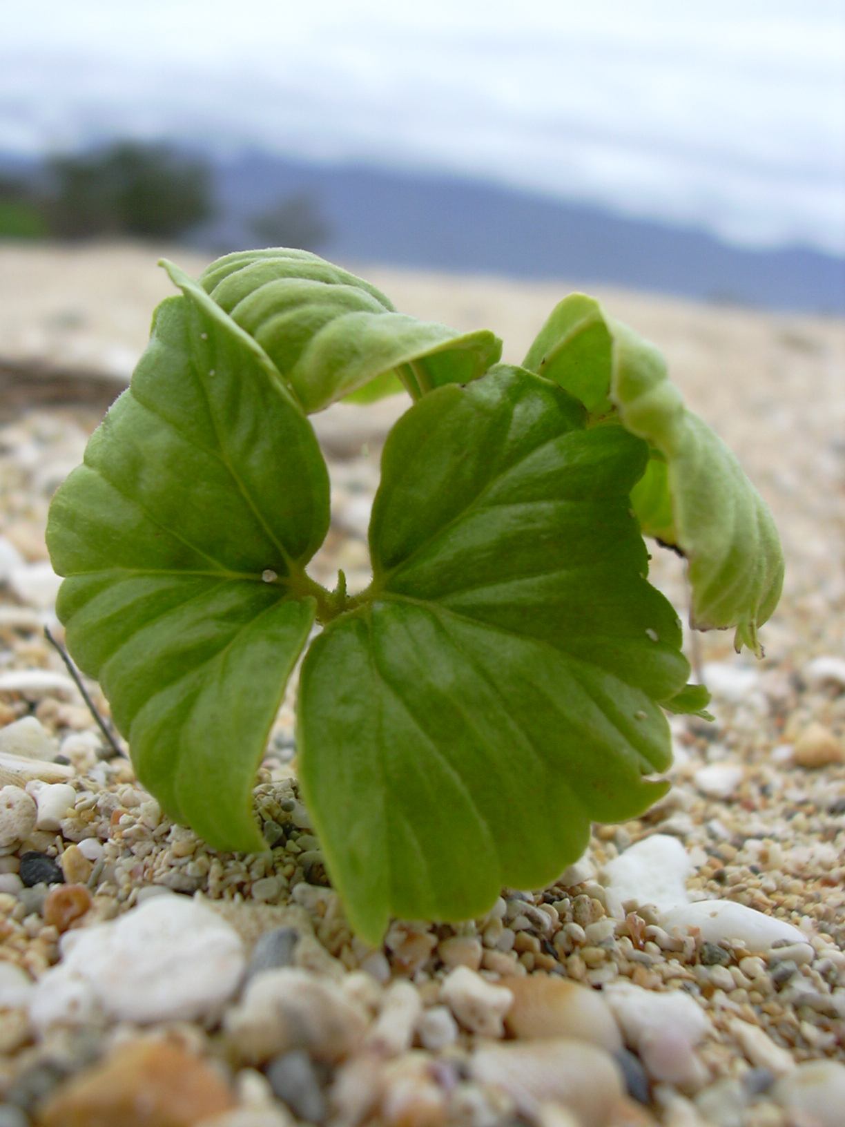 Cordia subcordata (seedling). Location: Maui, Kanaha Beach